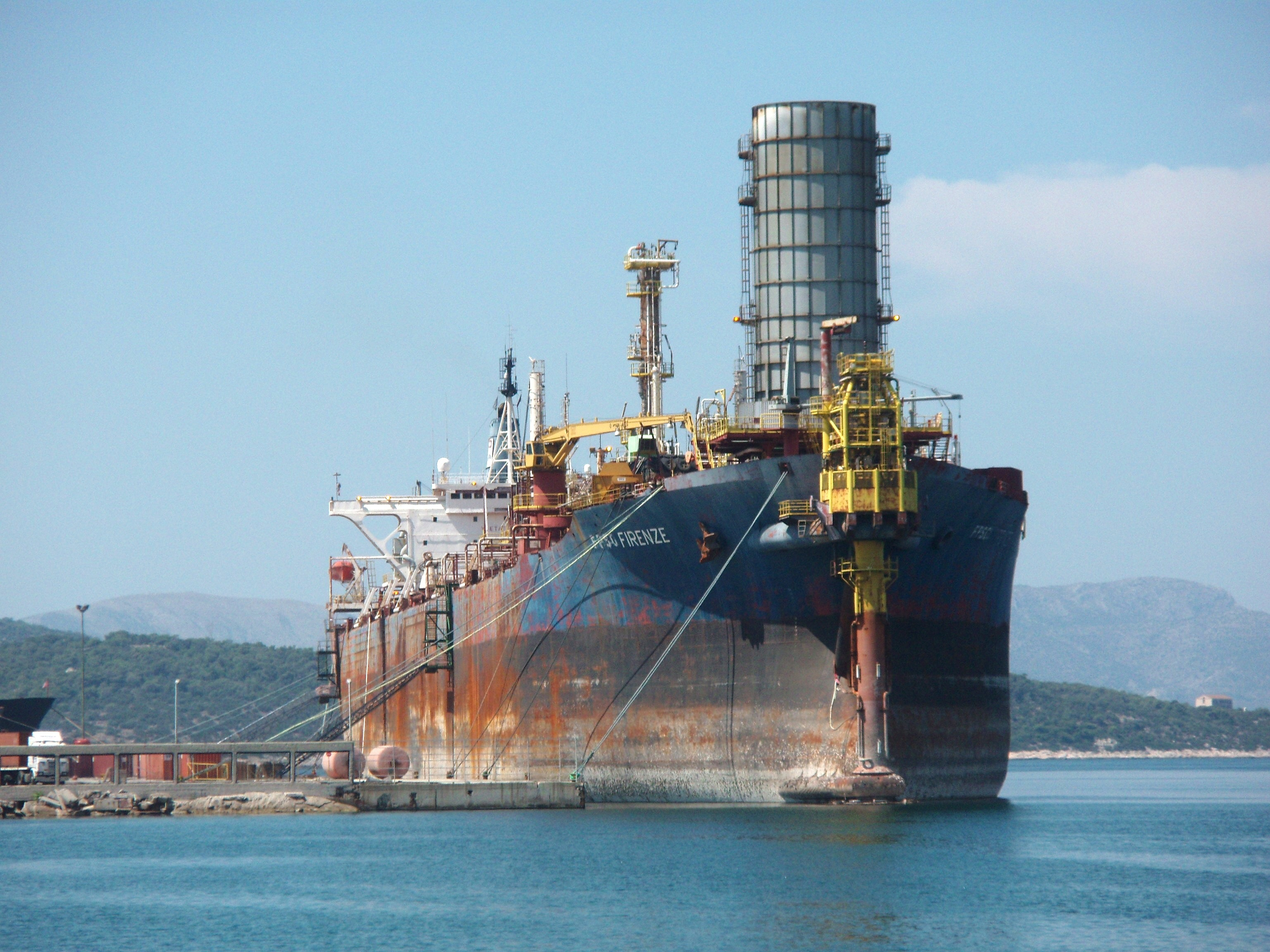 FPSO Firenze at Hellenic Shipyards. This was a Floating Production Storage and Offloading unit, owned by Agip group company Saipem S.p.A. IMO Number: 7117436 Callsing: C6NY2